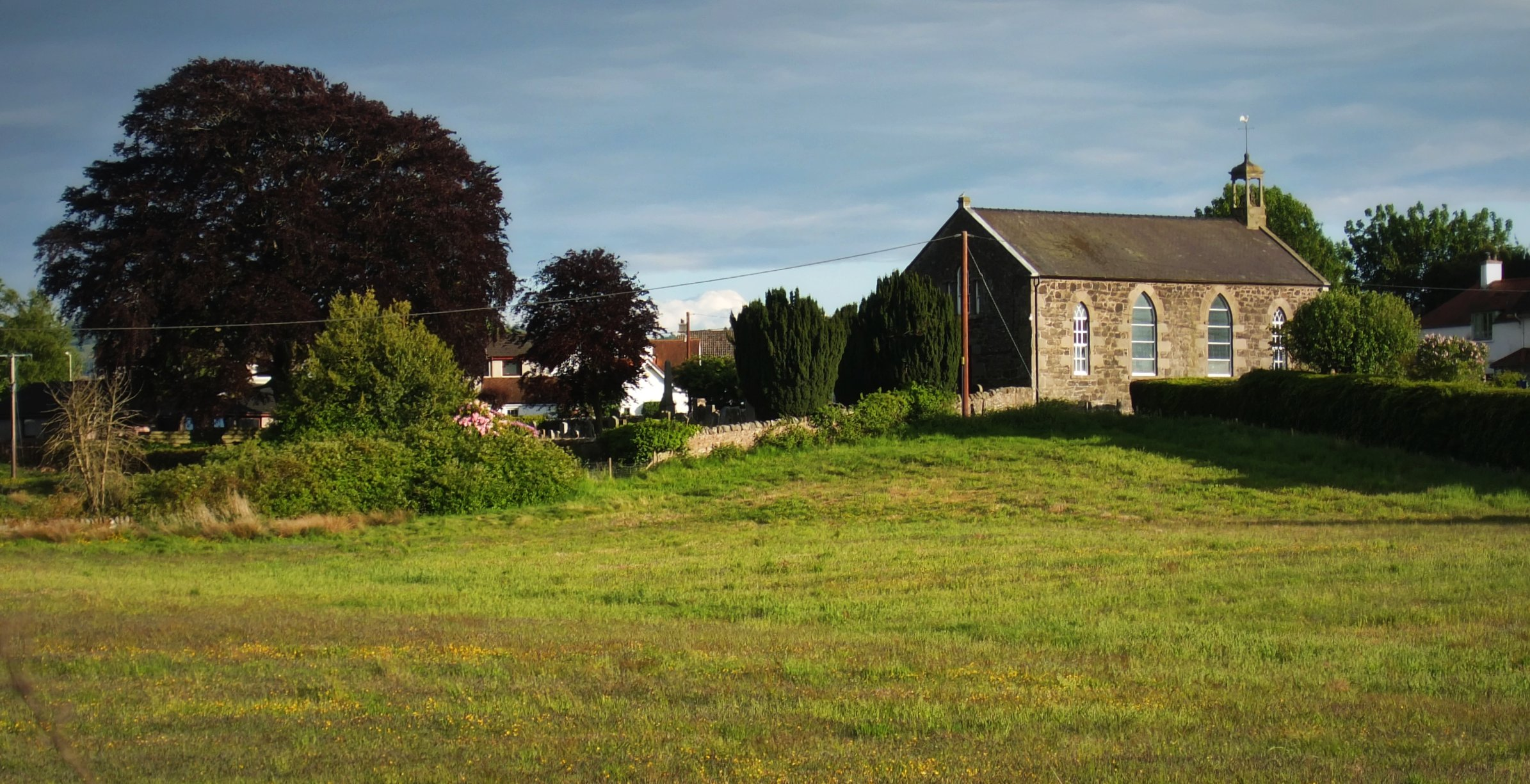 St Madoes Church from the north. Reputed to be designed by Robert Adam The same renowned architect who designed nearby Pitfour Castle for the same client John Richardson.